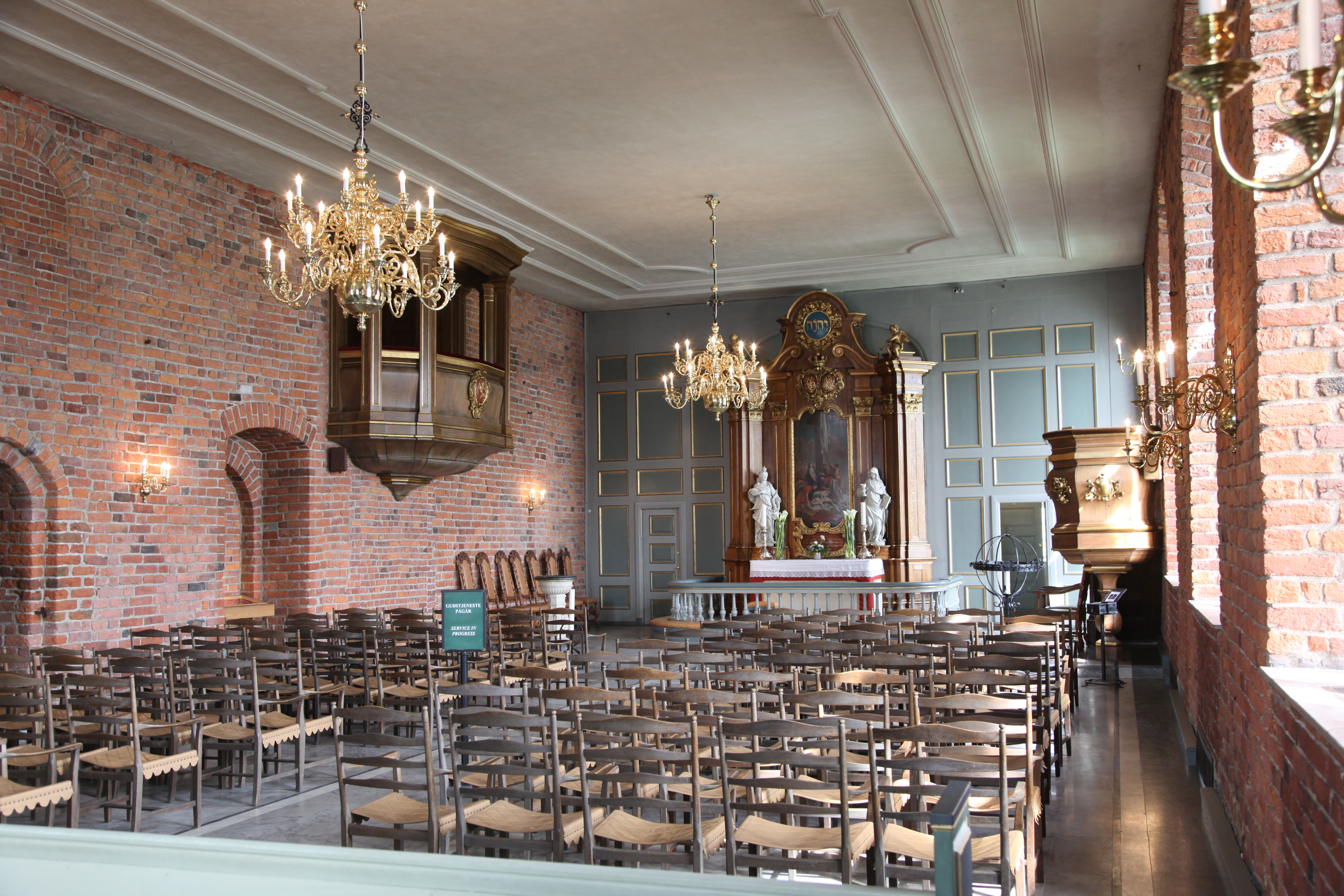 The church in Akershus Castle